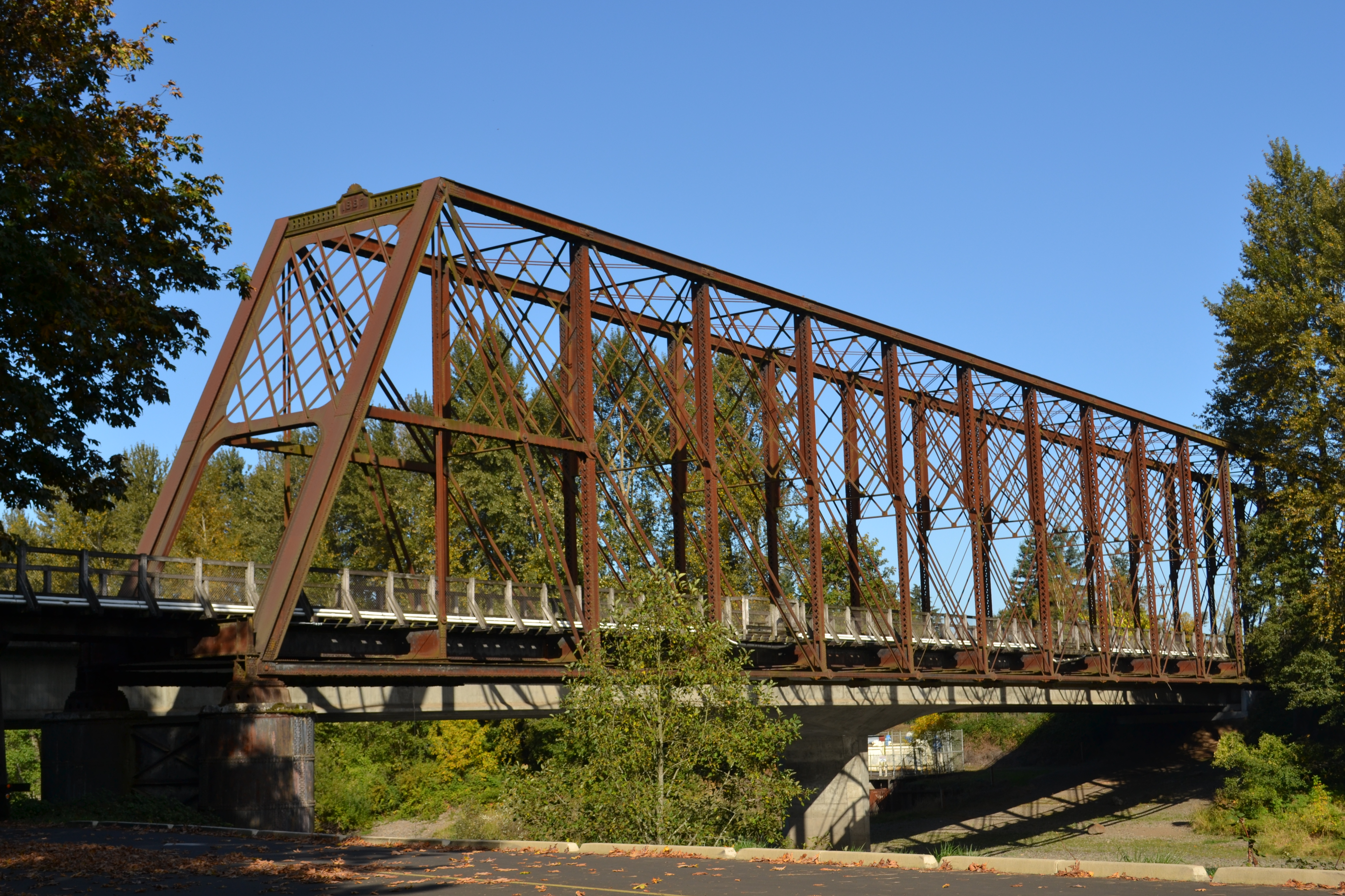 Oregon Railway and Navigation Company Bridge (Springfield, Oregon)